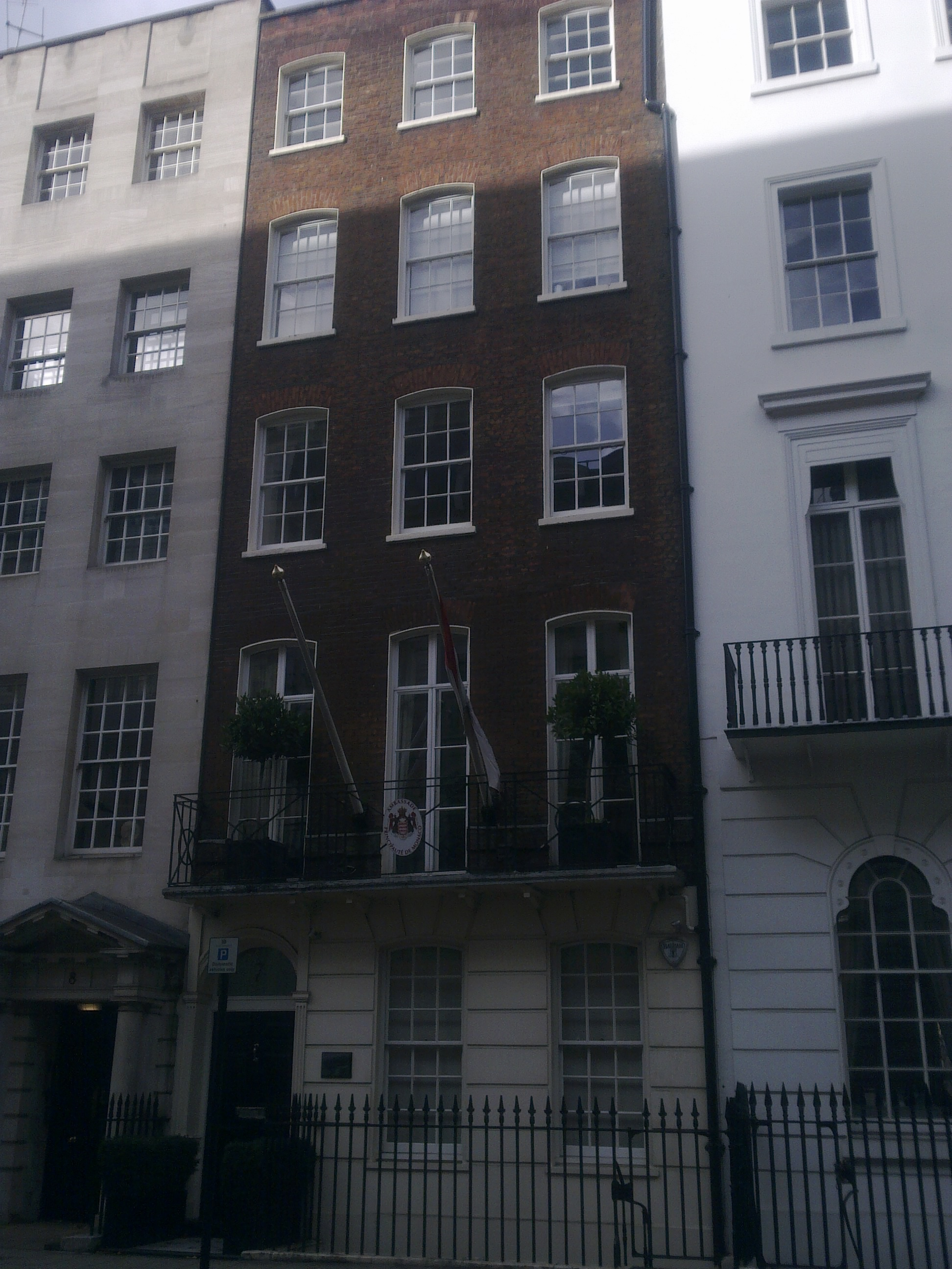 Embassy of Monaco in London 1